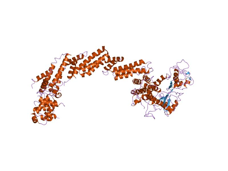 Cartoon representation of the molecular structure of protein registered with 1ldk code.